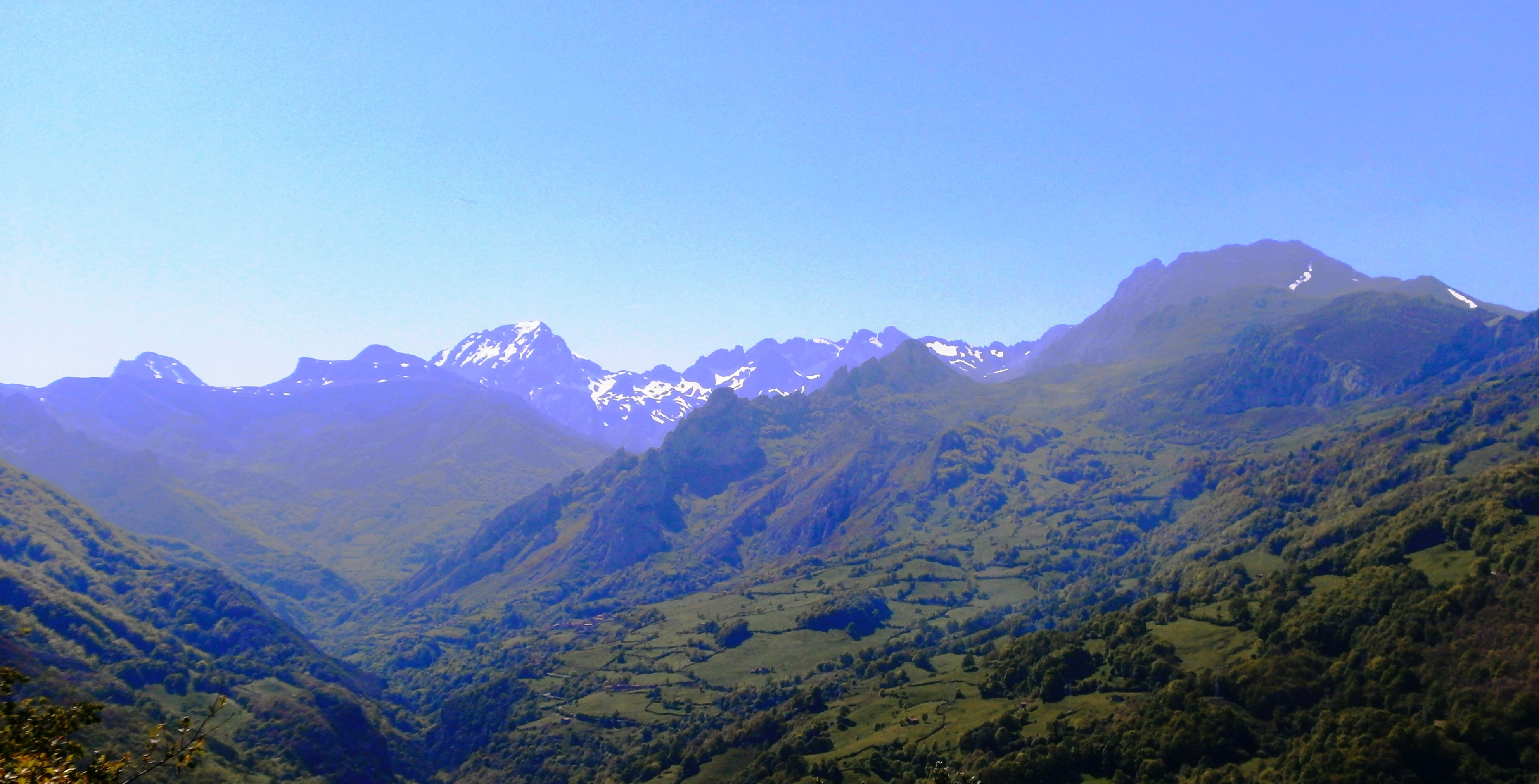 Macizo de las Ubiñas desde la Autopista del Huerna